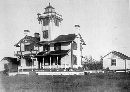 Public Domain statement here; 1874 Point Hueneme Light